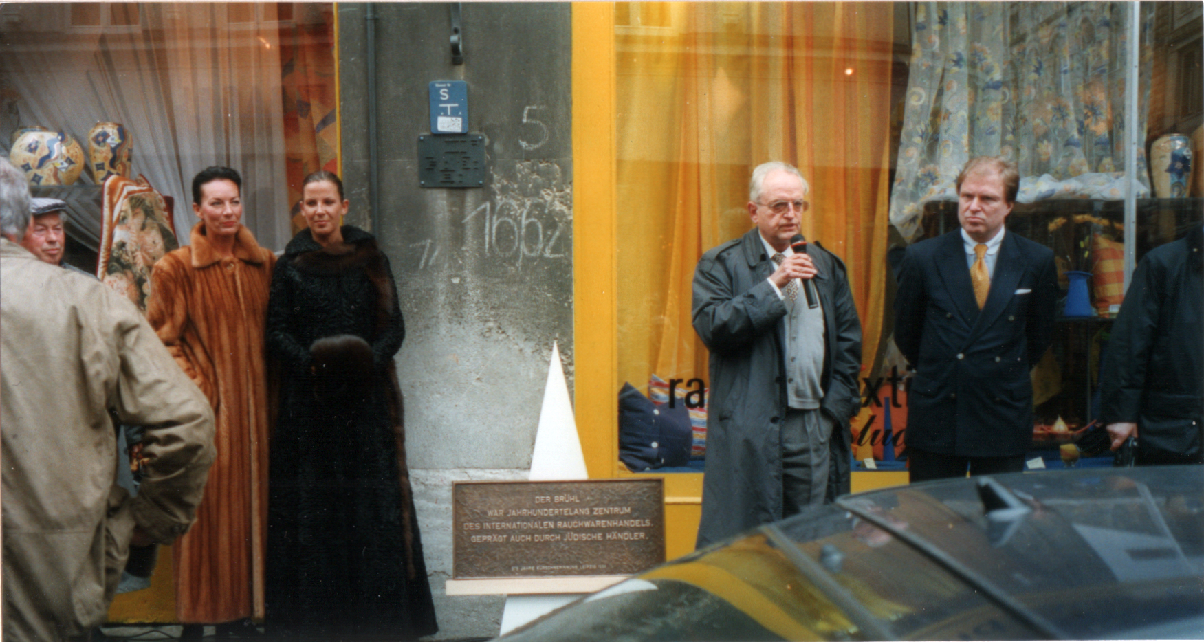 Furrier's guild Leipzig The thanks for the sponsors Einweihung der Gedenktafel 1998